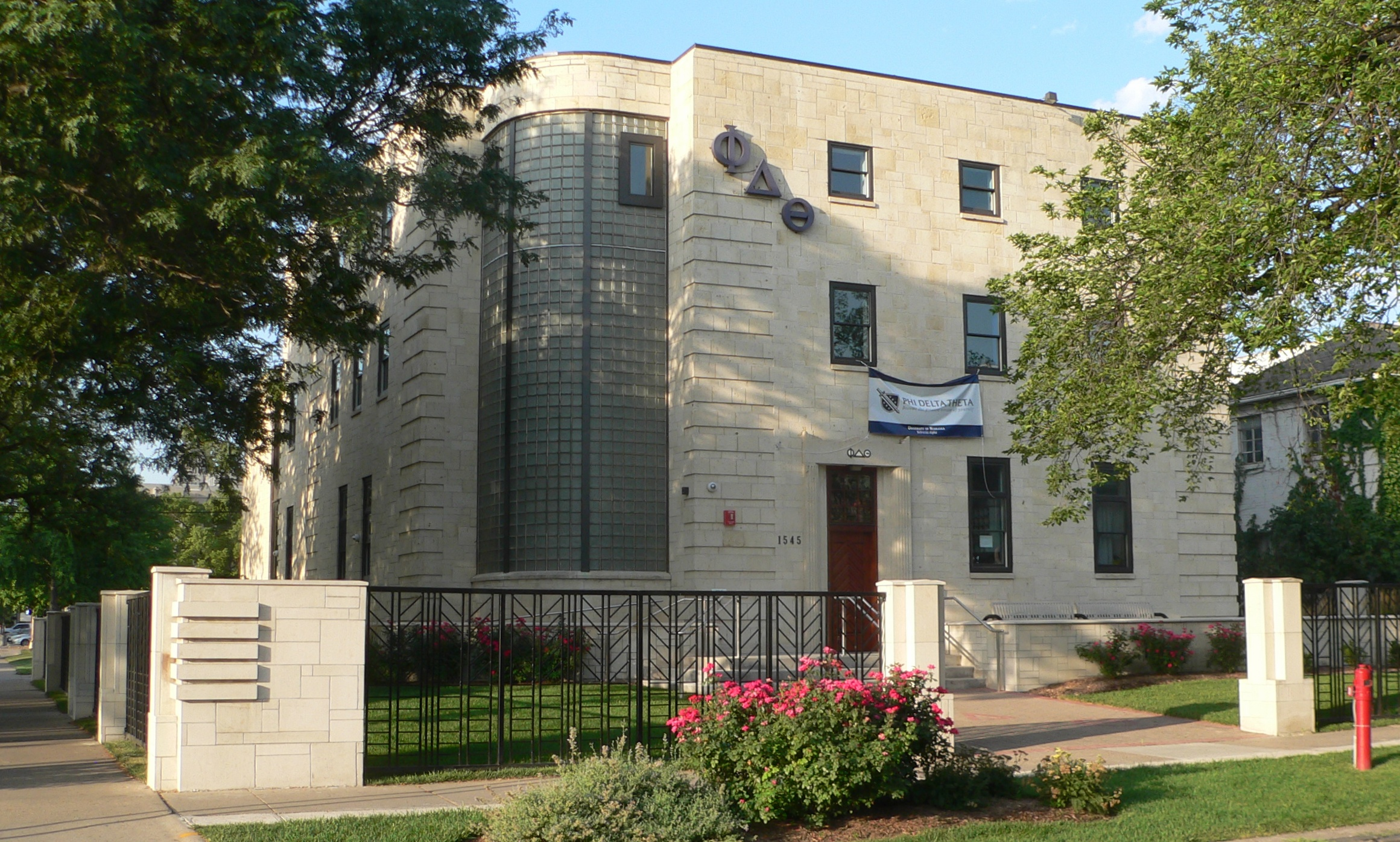 Phi Delta Theta fraternity house, located at 1545 R Street (southwest corner of 16th and R) on the University of Nebraska campus in Lincoln, Nebraska; seen from the northeast, across R.